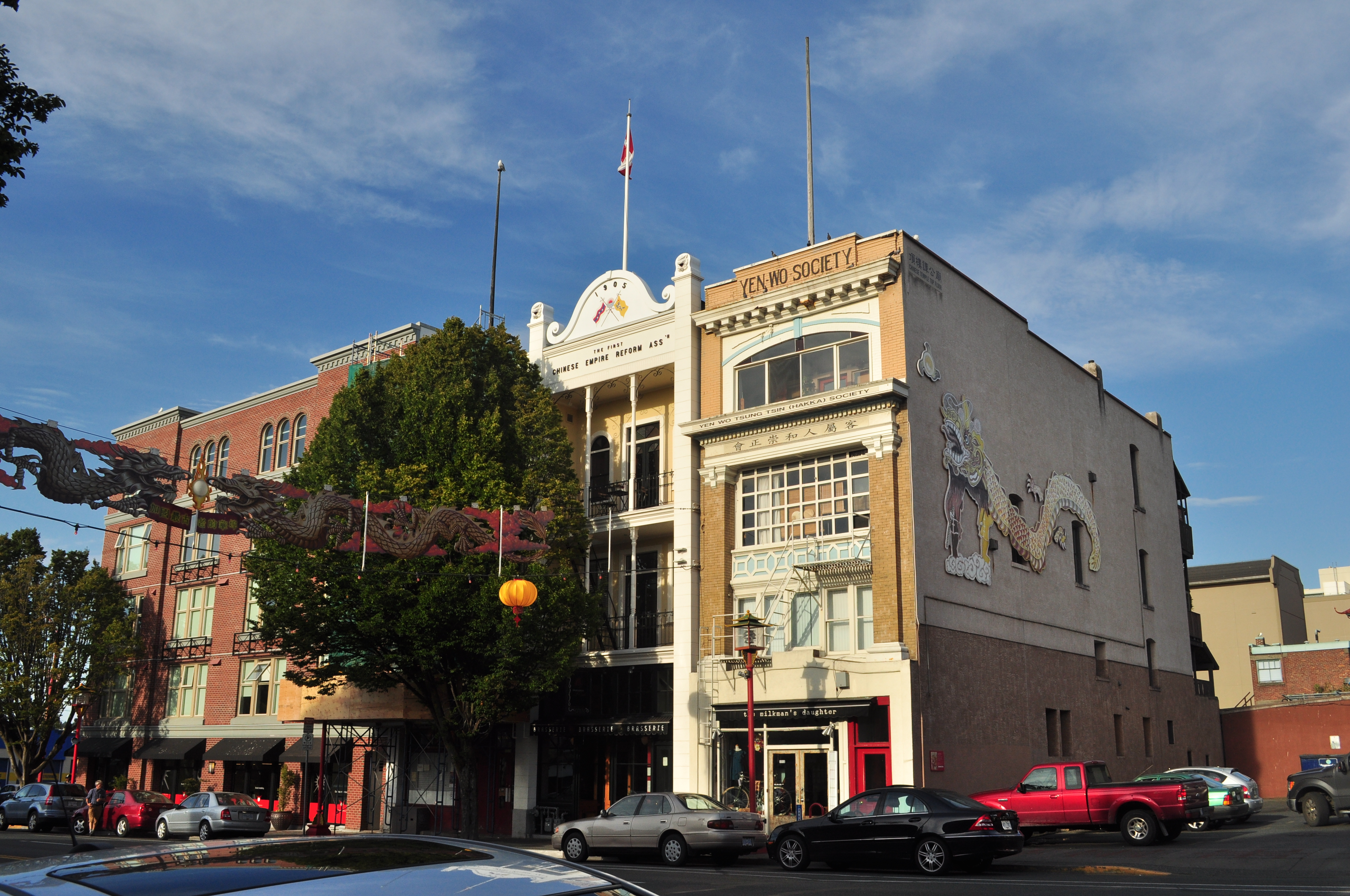 At middle-left, First Chinese Empire Reform Association Building, 1715 Government Street, Victoria, British Columbia. At right, Yen Wo Society Building, 1713 Government Street. The latter is a designated Historic Property; oddly, the former is apparently not, despite Victoria's being the founding chapter of the Chinese Empire Reform Association.